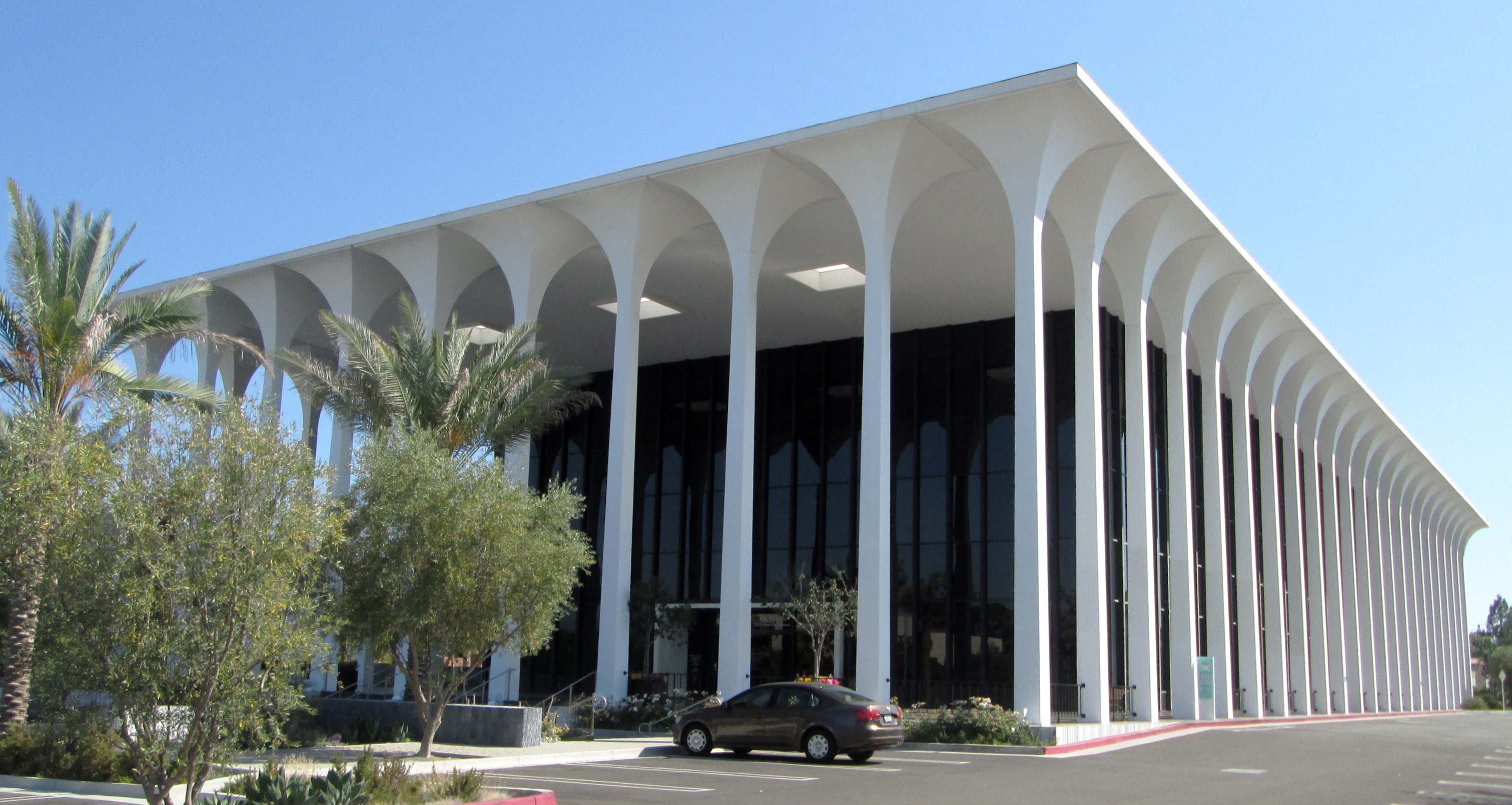 The Taj Mahal Medical Center at 23521 Paseo de Valencia in Laguna Hills, California was built in 1964 and was designed by Burke, Kober & Nicholais in the neo-classical style. (Source: "Taj Mahal Medical Center")